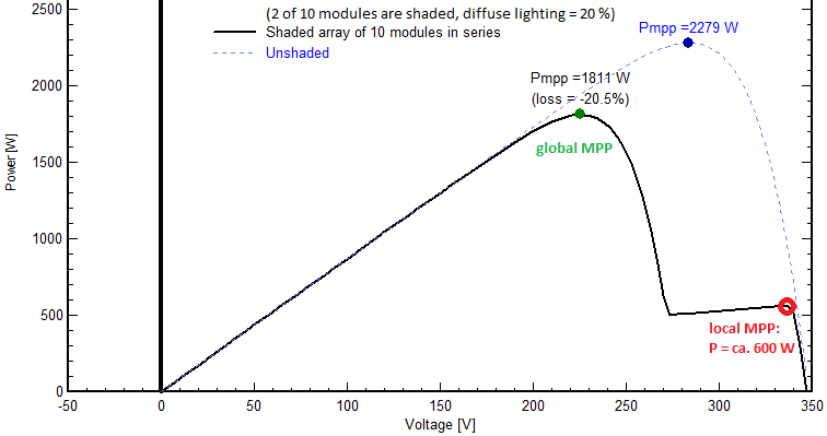 UP-curve of a partially shaded solar generator, with marked local and global MPP